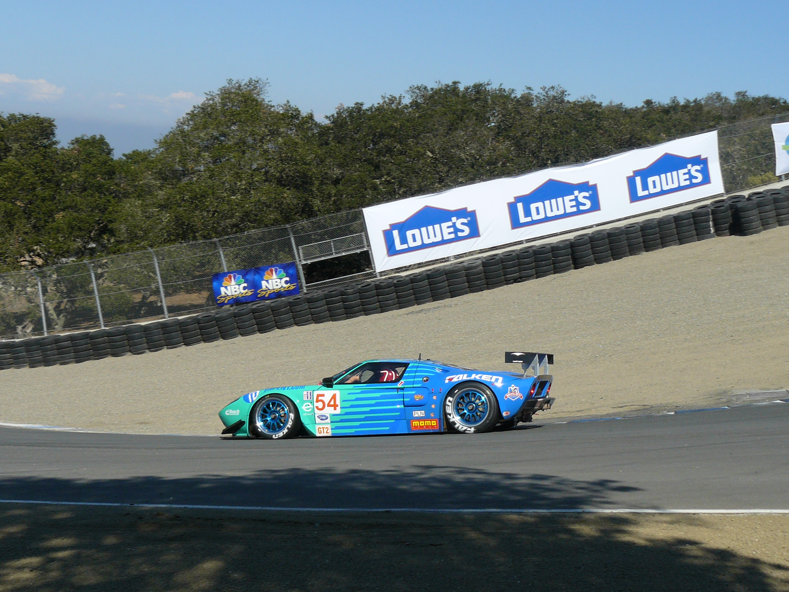 No.54 Black Swan Racing Doran Ford GT-R on the Corkscrew - ALMS Laguna Seca, Monterey, California, USA. October 2008